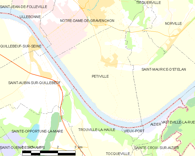 Map of French municipality Petiville